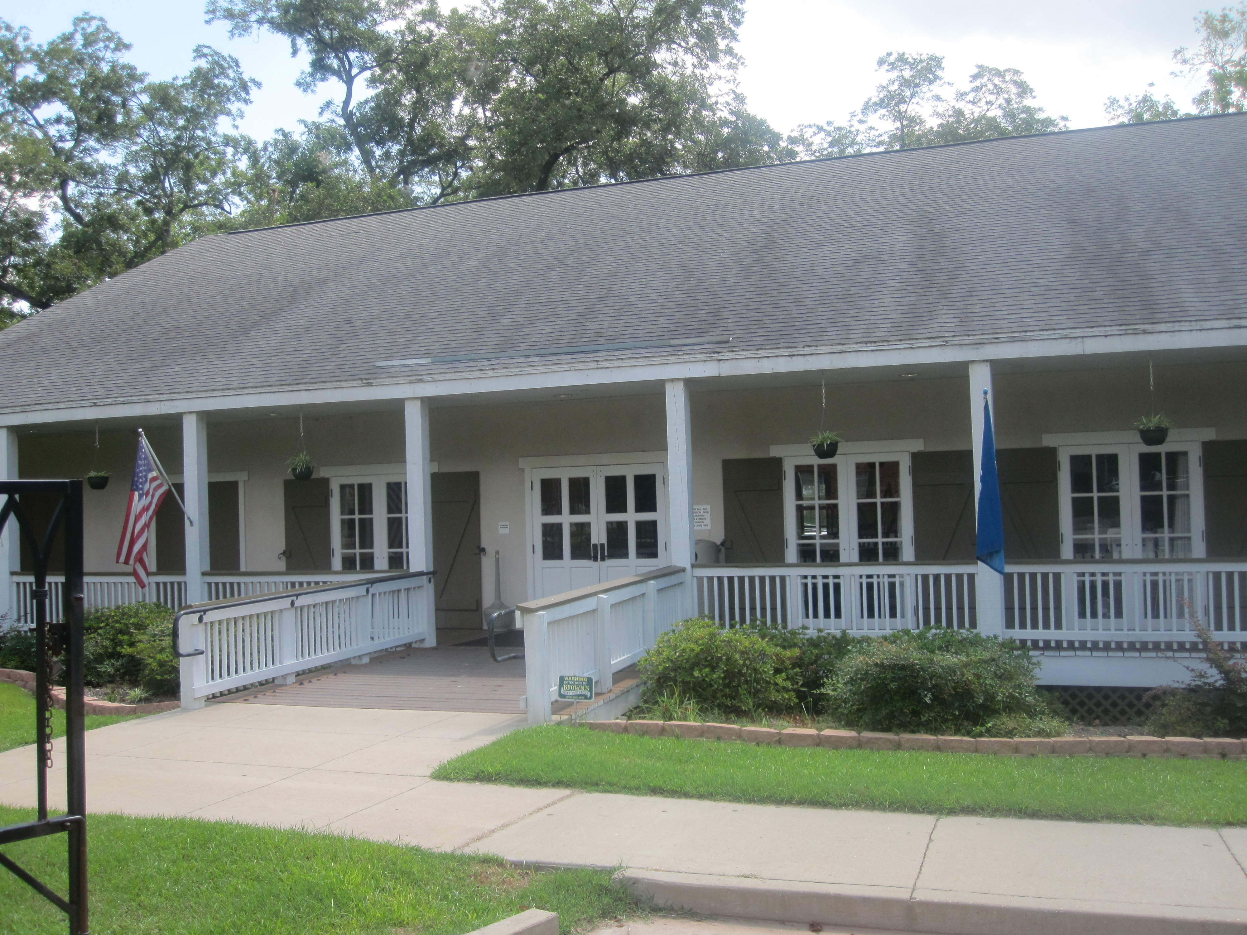 Restored Fort Saint Jean Baptiste in Natchitoches, LA